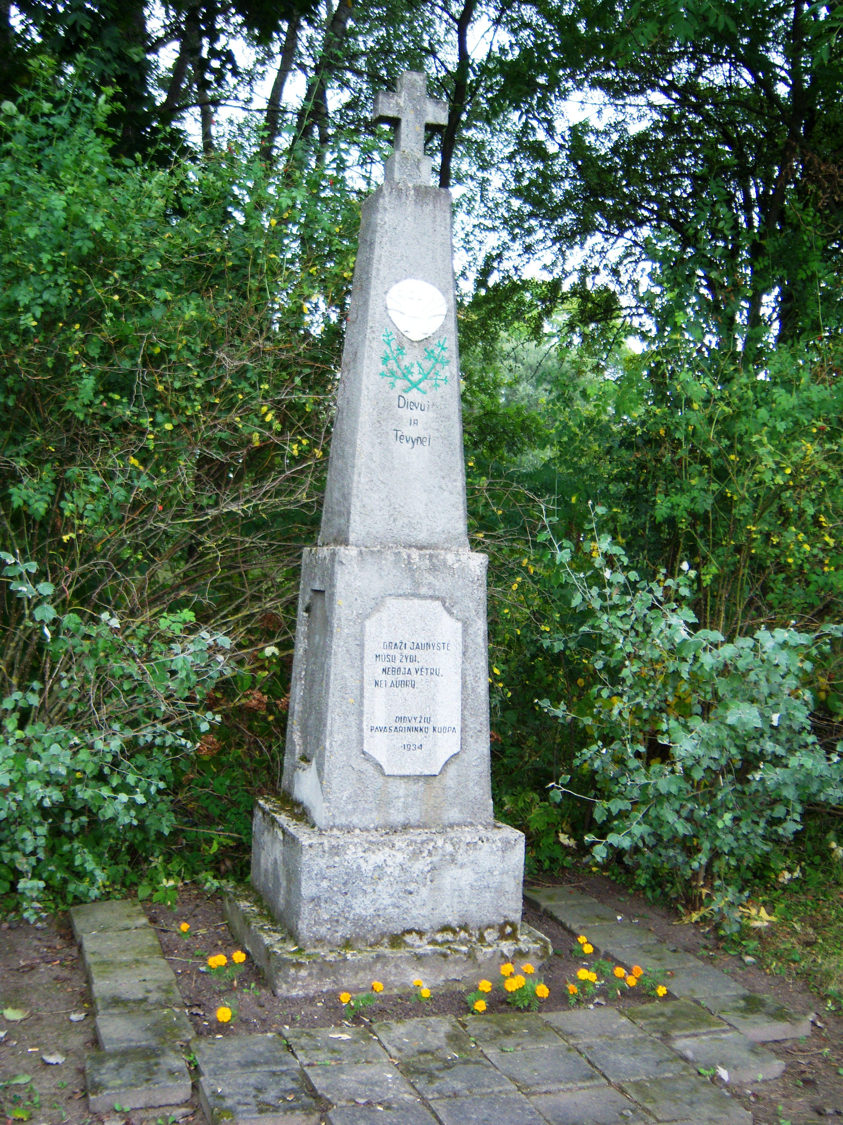 Monument to Pavasaris Catholic youth movement in Didvyžiai, Vilkaviškis District, Lithuania